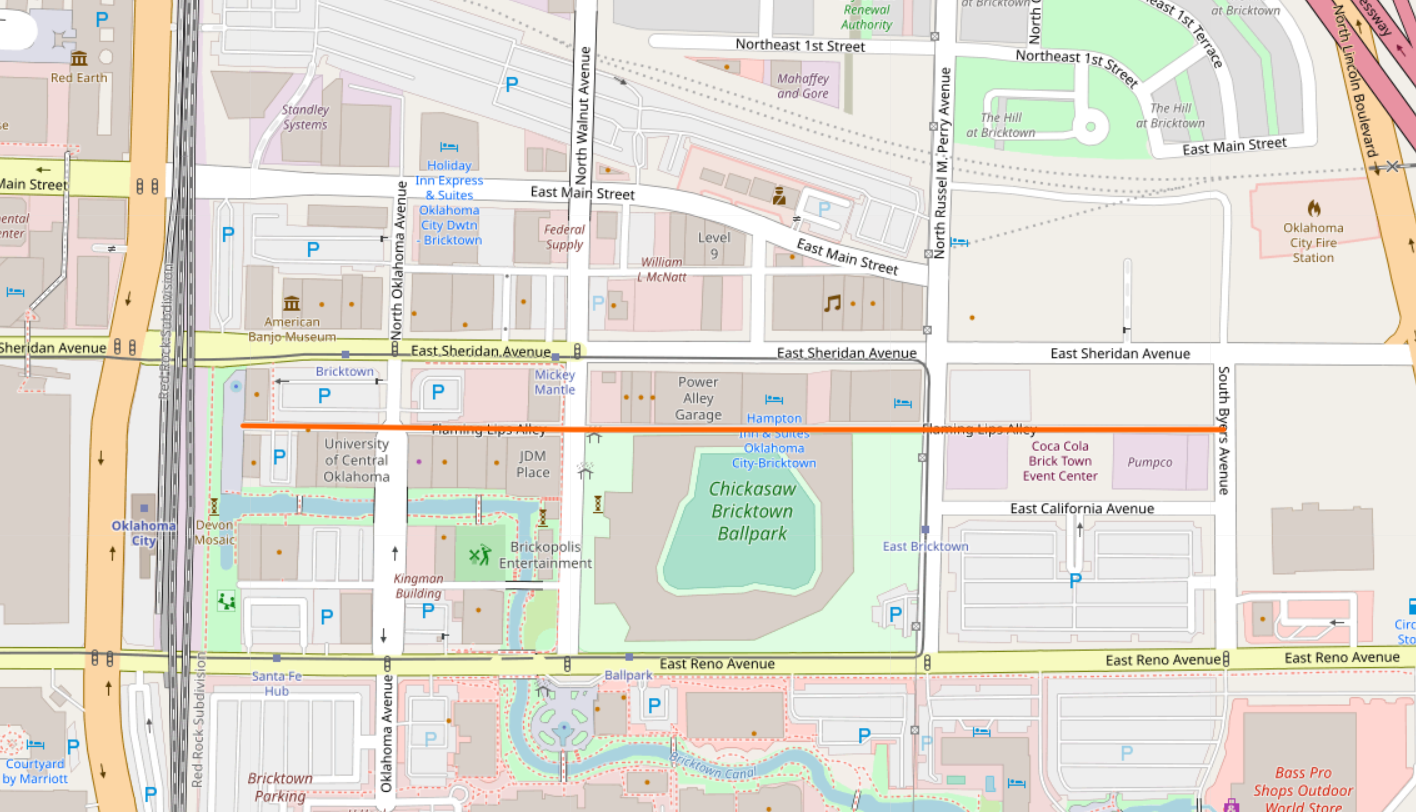 This map may be incomplete, and may contain errors. Don't rely solely on it for navigation.